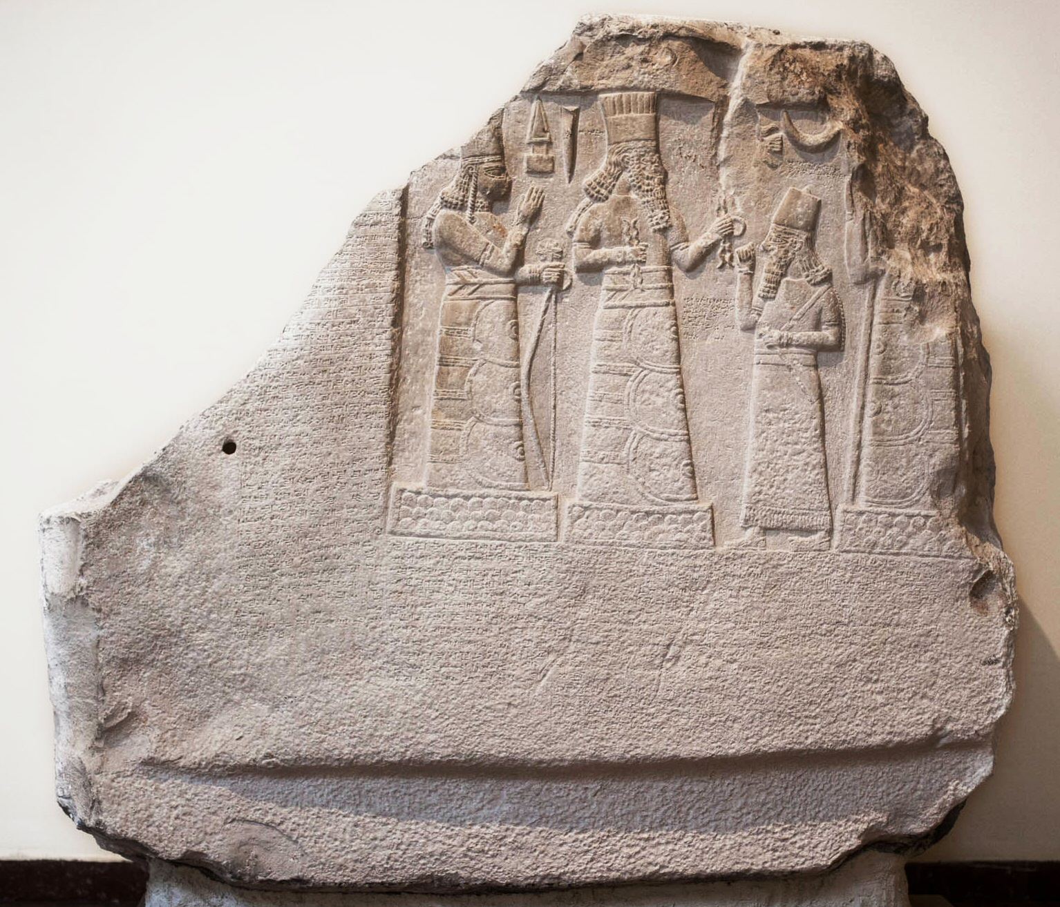 Shamsh-res-usur, governor of Mari and Suhi, attitude of prayer in front of the gods (Adad and Ishtar). Stele with inscription and relief 8th century BCE from Palace Museum of Babylon (Ennigaldi-Nanna's museum?) Limestone The inscription says that the governor reigned for 13 years and during his reign erected the city of Gabarri-ibni, while also re-establishing the canals and encouraging the planting of date palms in different cities, and working on the development of agriculture in the city of Suhi. Alternate spellings: Shamsh-res-usur, Shamash-res-usur Samus-Res-Usur, Shamash-resh-Usur Suhi, Sussi, Suhu Notes (Dalley, 2002, pp. 201-203): Adad is holding lightning in each hand Cuneiform is in dialect of Babylonia not Assyria Symbols above the gods are the pointed spade of Marduk, patron of Babylon, next to the stylus of Nabu, and the winged disc of Shamash, the sun god, next to the lunar disc of Sin